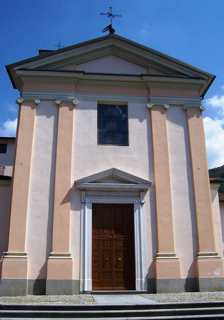 Church of Saint Zeno. Gratacasolo, Pisogne, Val Camonica